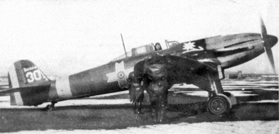 A Heinkel He 112 in FARR romanian livery at Focsani airport in the end of 1942. The plane was used at that time for training flights.